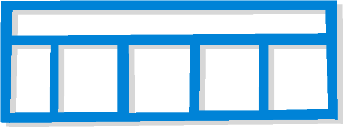 Roman villa Crofton, first phase, about AD 150